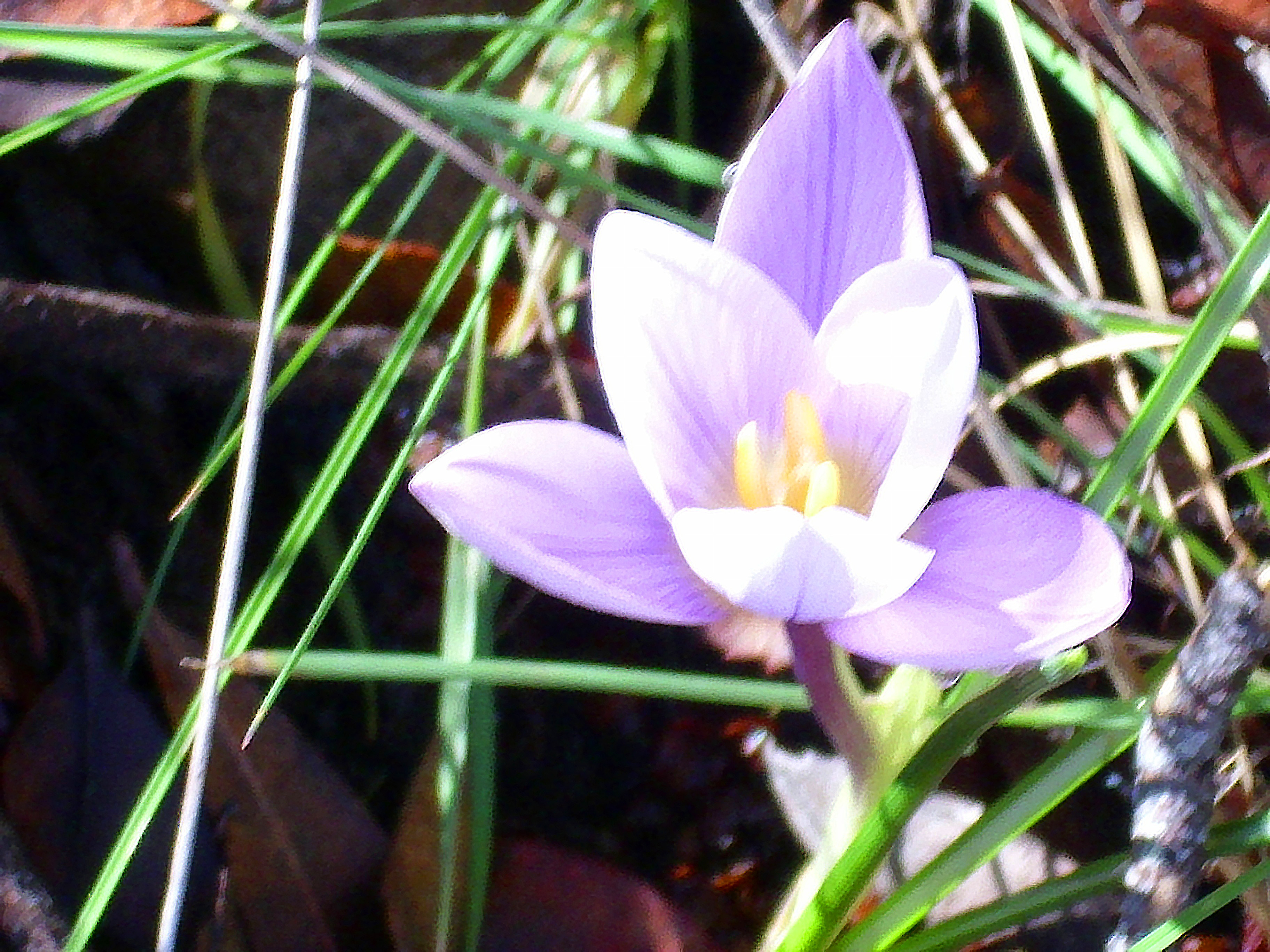 Crocus carpetanus flower closeup, Sierra Madrona, Spain